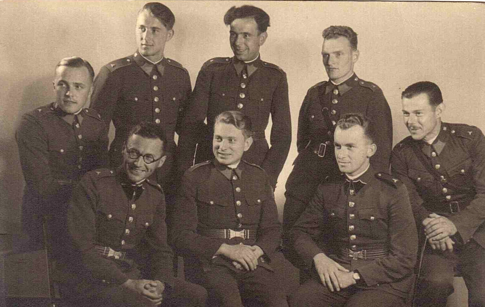 por. Oldřich Hejl